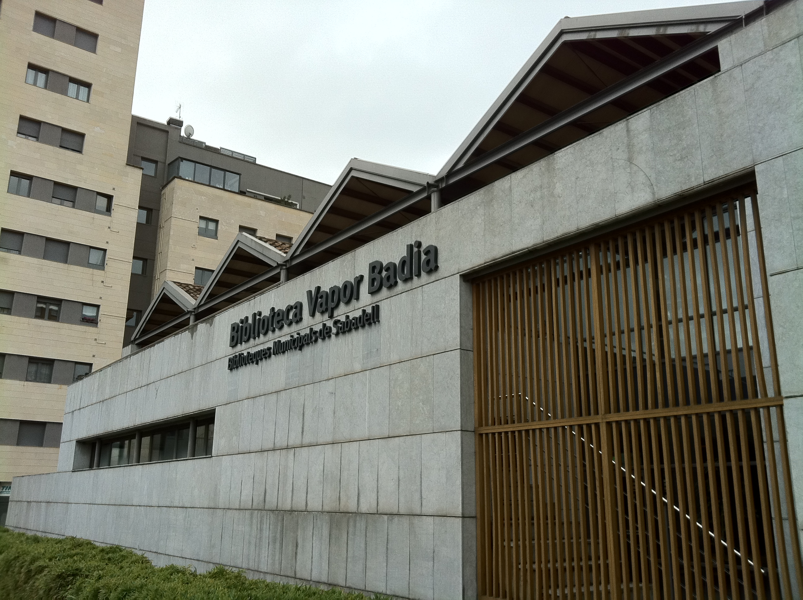 Back view of Biblioteca Vapor Badia, library in Sabadell, Catalonia